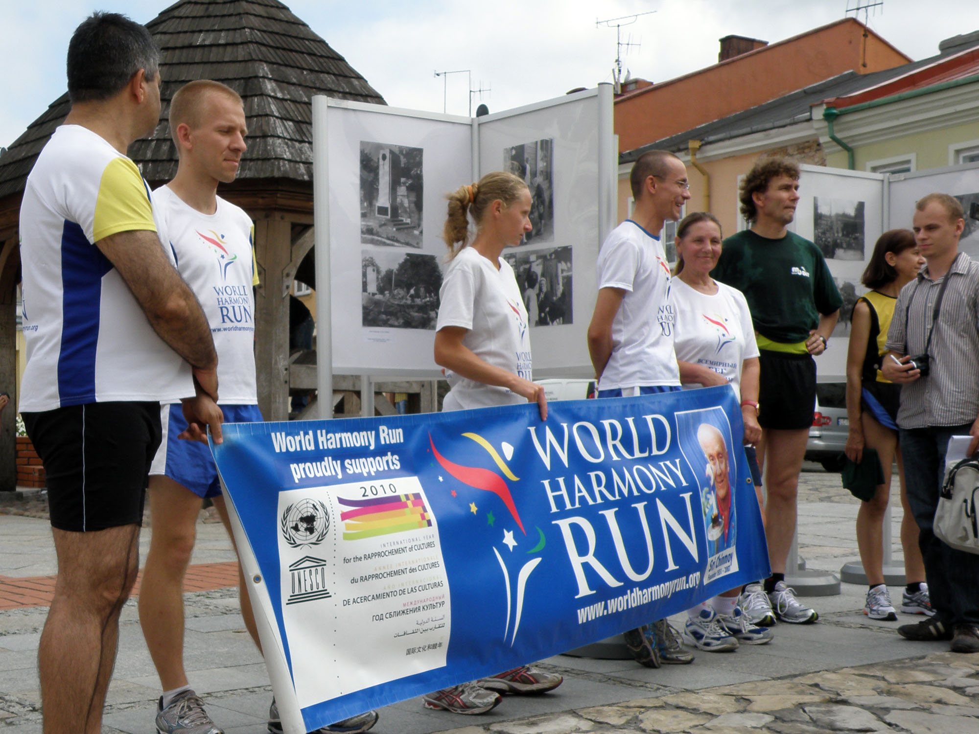 World Harmony Run 2010 (Peace Run) Chełm, Poland.